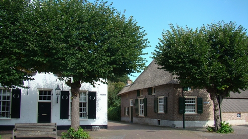 Batenburg town